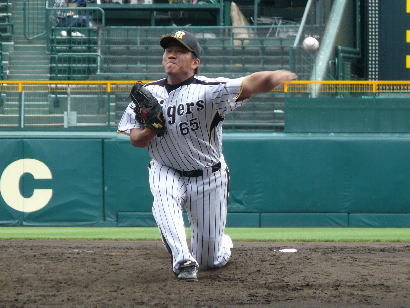 HT-Shingo-Matsuzaki20120501